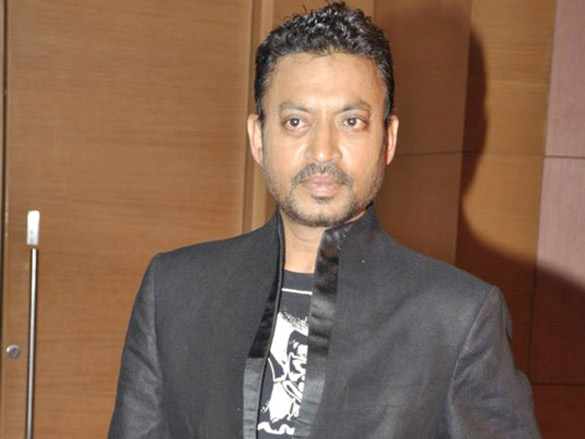 Irrfan at success party of Anil Abnami picture